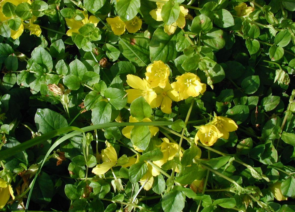 Lysimachia nummularia: Flowers and leaves.